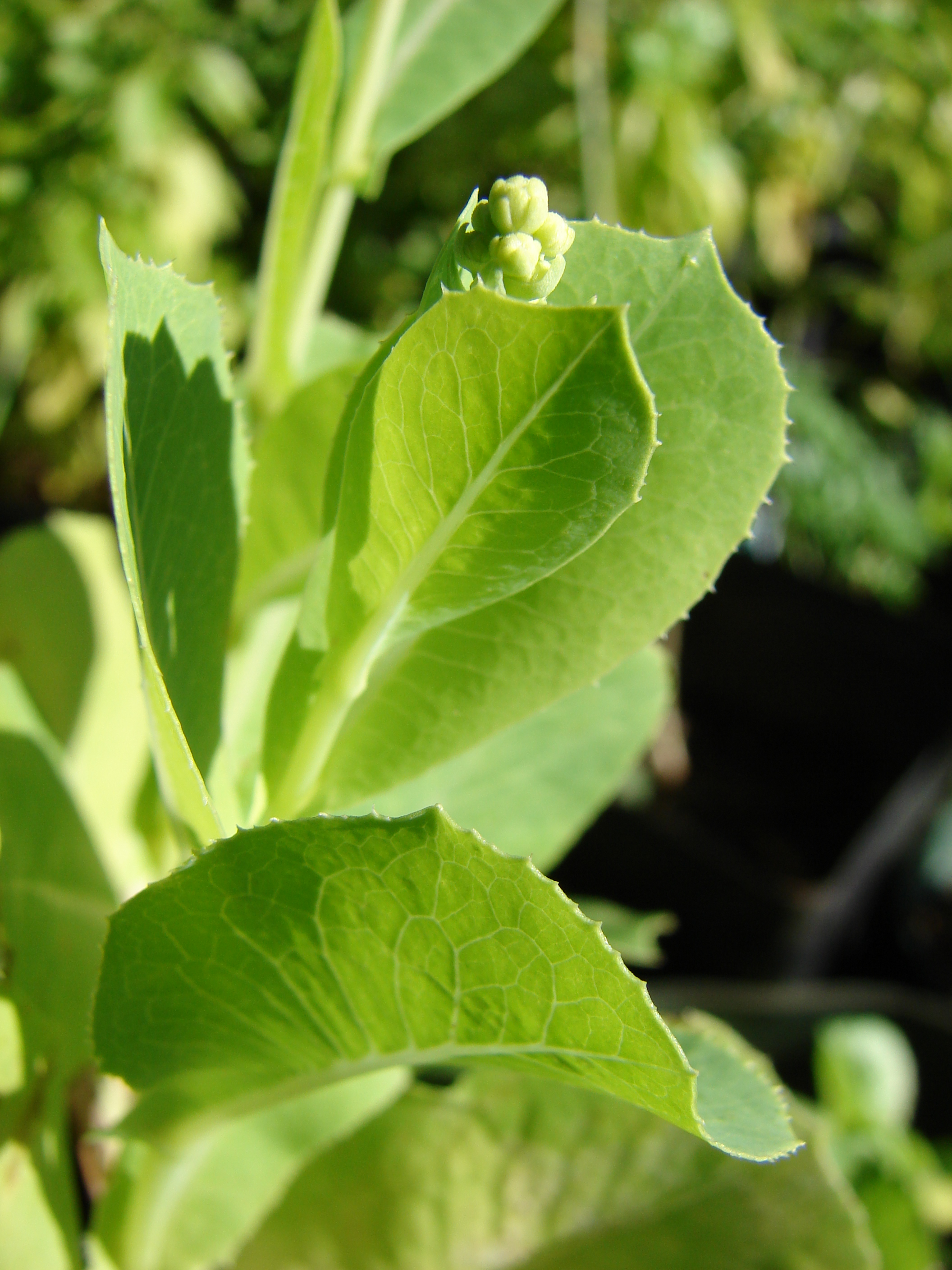 Lactuca sativa (lettuce bolting). Location: Maui, Makawao